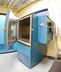 Temperature and humidity chamber to simulate transport, warehouse environments, and shelf life conditions of a packaged product.